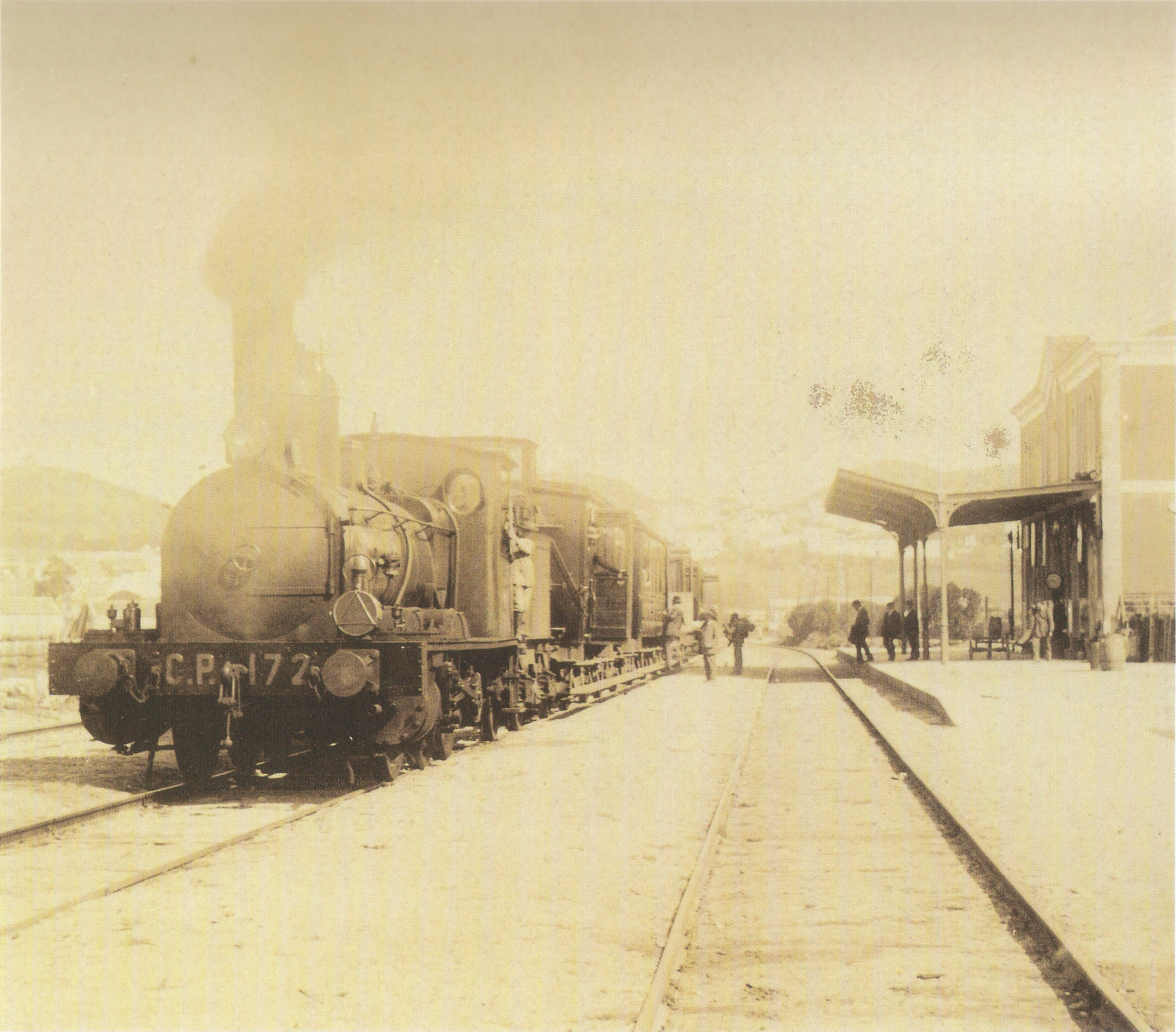 Train headed by the CP 172 locomotive on São Martinho do Porto Railway Station, on the Oeste Railway, in Portugal.